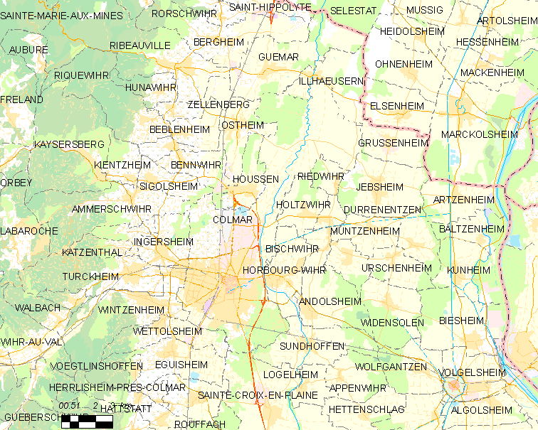 Map of French municipality